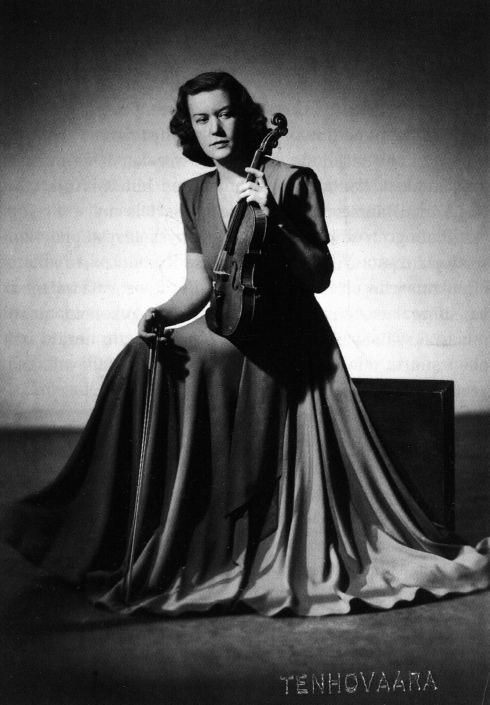 Photograph of the Finnish violinist Anja Ignatius (1911–1995).